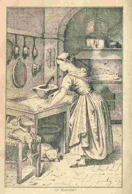 Frontispiece of La cuciniera genovese from Ratto Giovanni Battista, Typography Fratelli Pagano, 1877, Genoa – Italy.